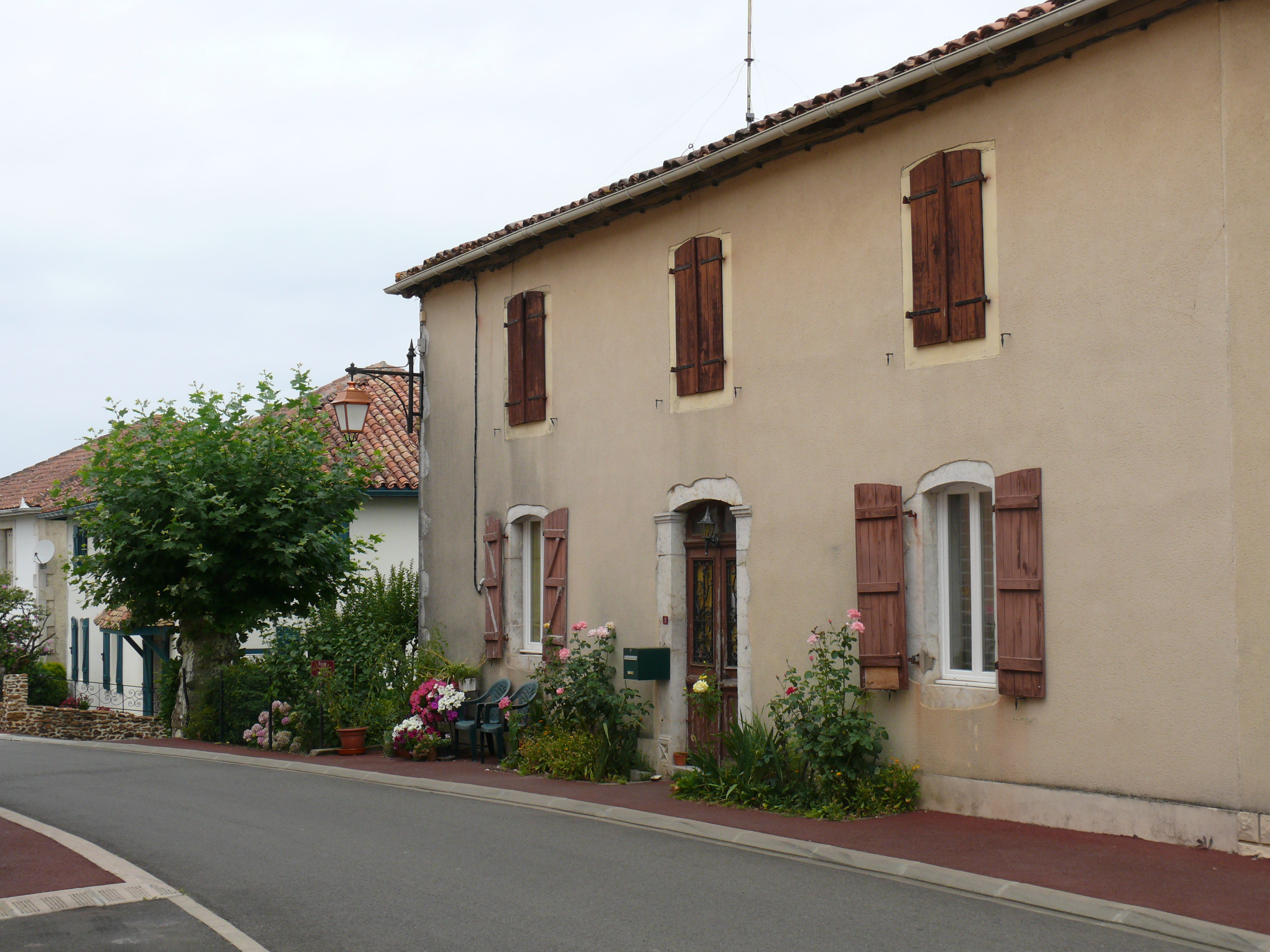 The village of Estibeaux (Landes, Aquitaine, France).